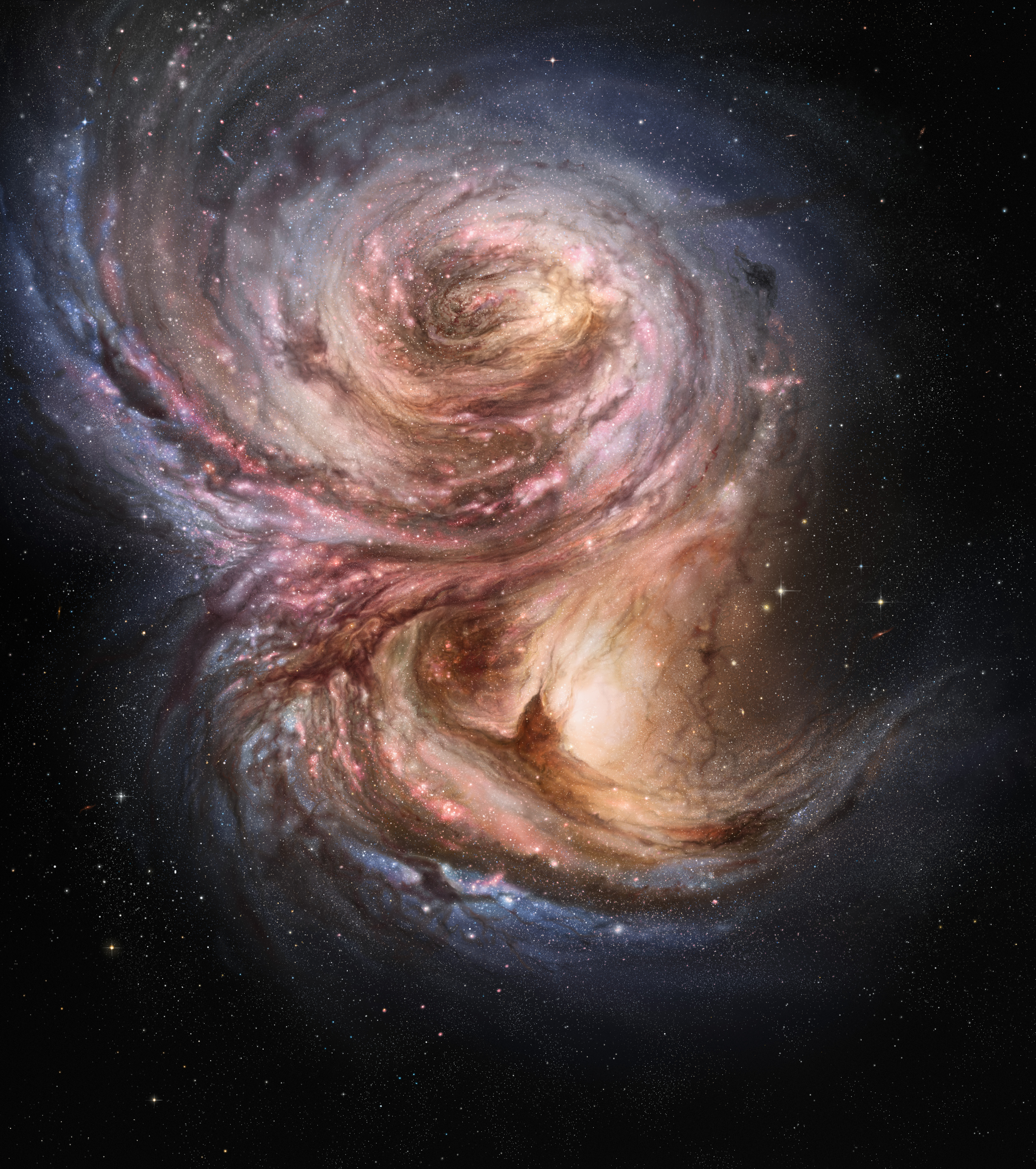 This artist’s impression of the distant galaxy SMM J2135-0102 shows large bright clouds a few hundred light-years in size, which are regions of active star formation. These “star factories” are similar in size to those in the Milky Way, but one hundred times more luminous, suggesting that star formation in the early life of these galaxies is a much more vigorous process than typically found in local galaxies.